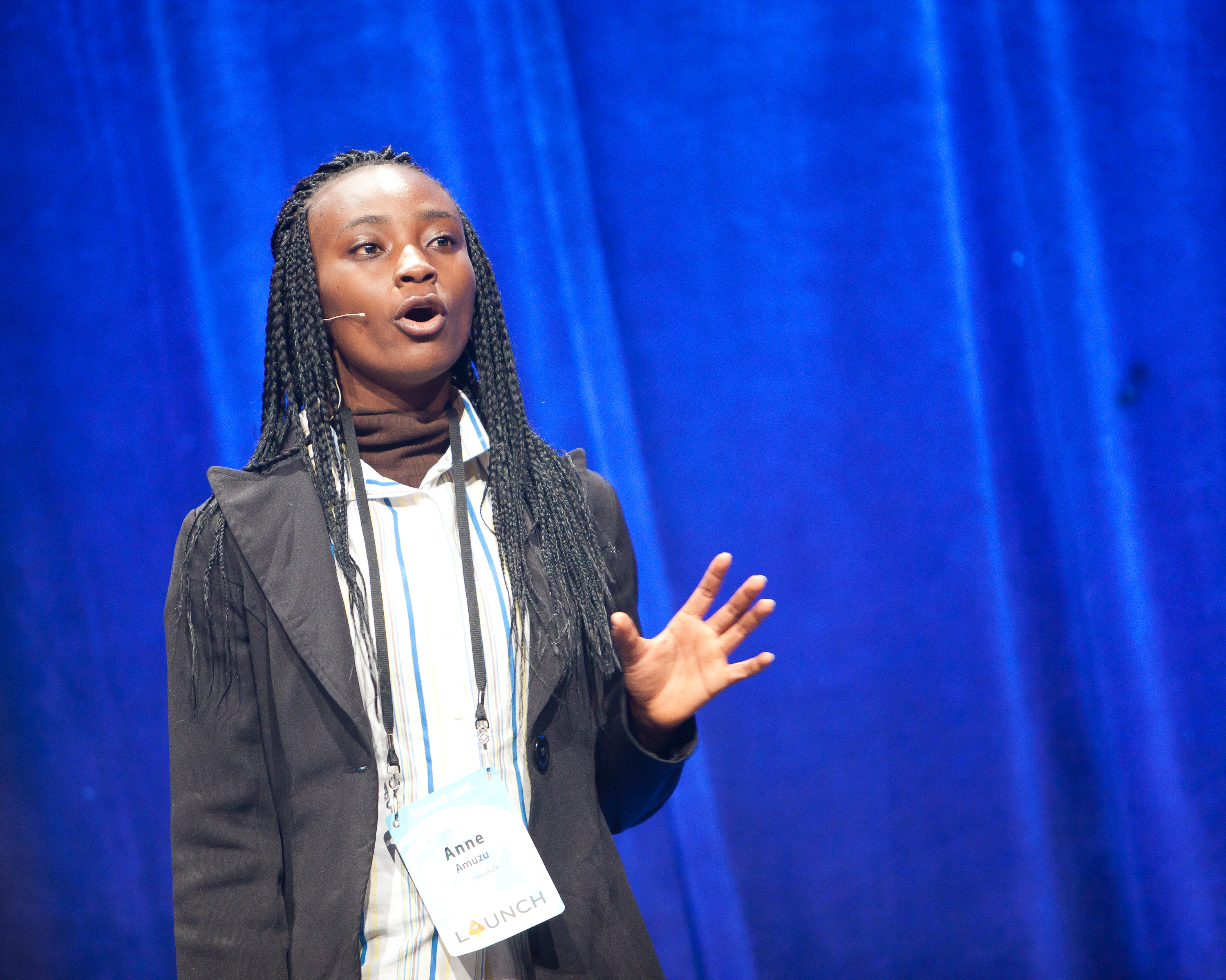 Anne Amuzu is a Ghanaian computer scientist and the co-founder of the technology company, Nandimobile Limited - here in 2011 Here with my Vancouver homeboys from checking out the new crop of startups.